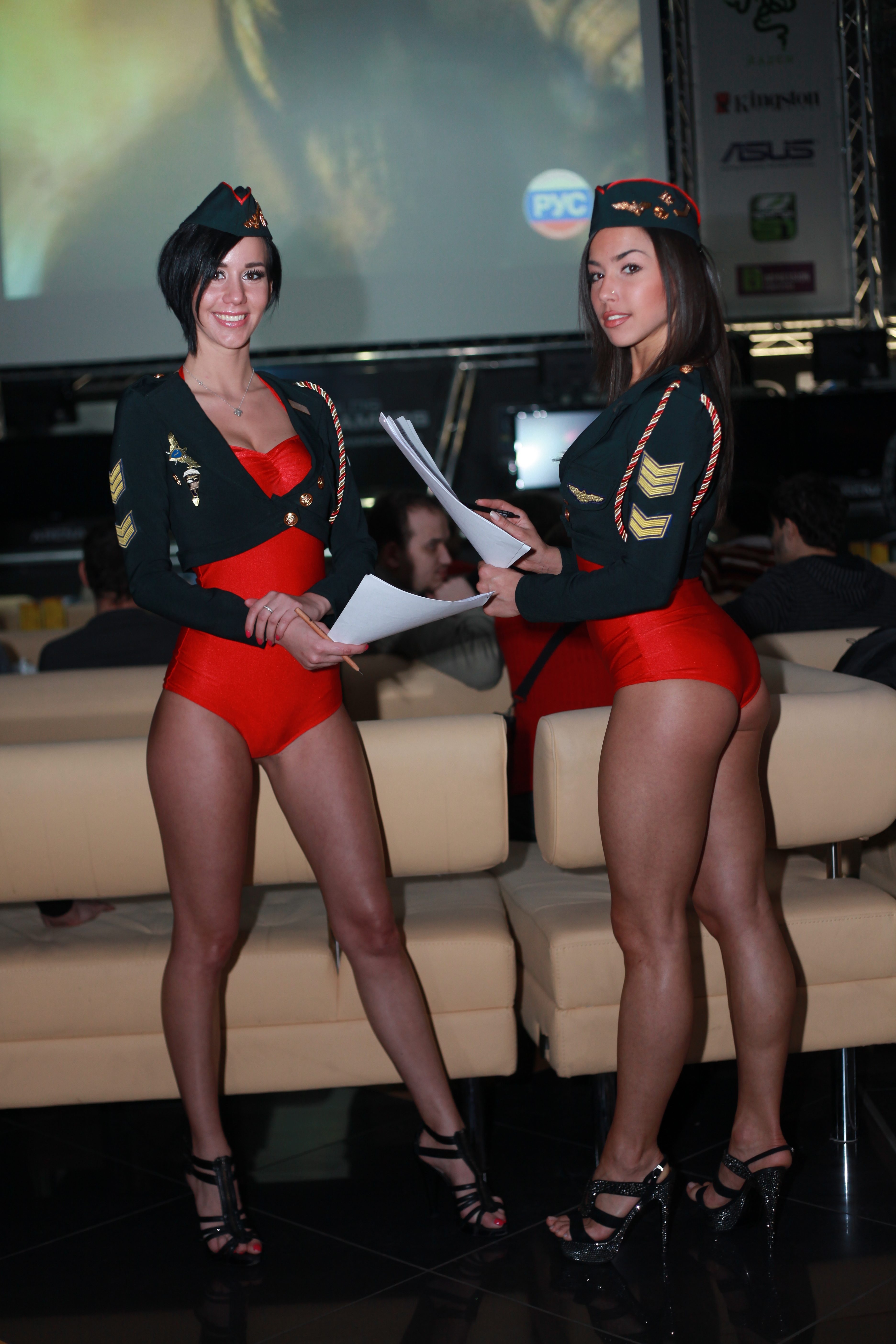 Taken on February 11, 2011 Canon EOS 5D Mark II